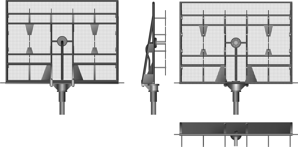 The FuMO 61 Hohentwiel antenna was 1,400 mm wide and a height of 1,000 mm, though it had an overall width of 1, 540 mm and a height of 1,022 mm. The mesh size is approximately 15 mm.